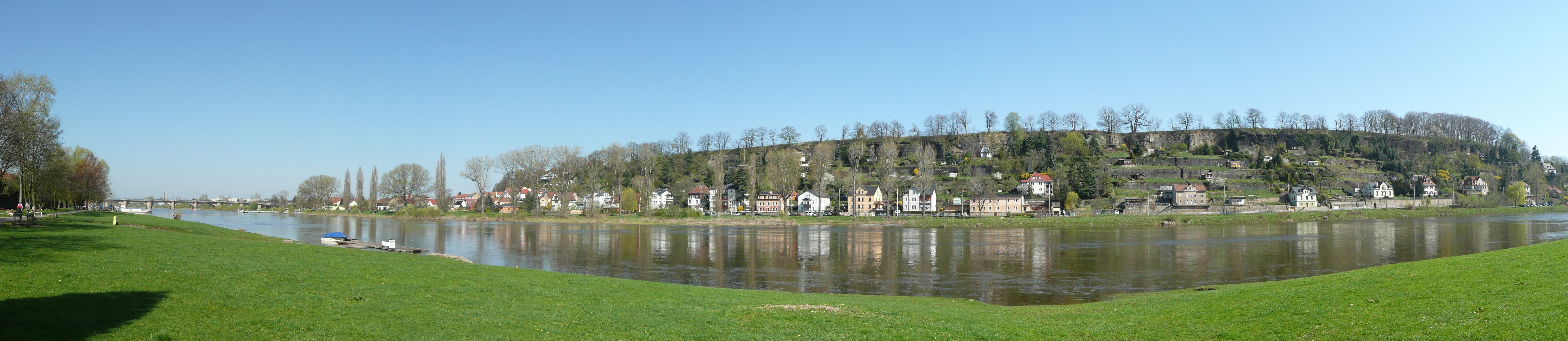 The river Elbe in Pirna.